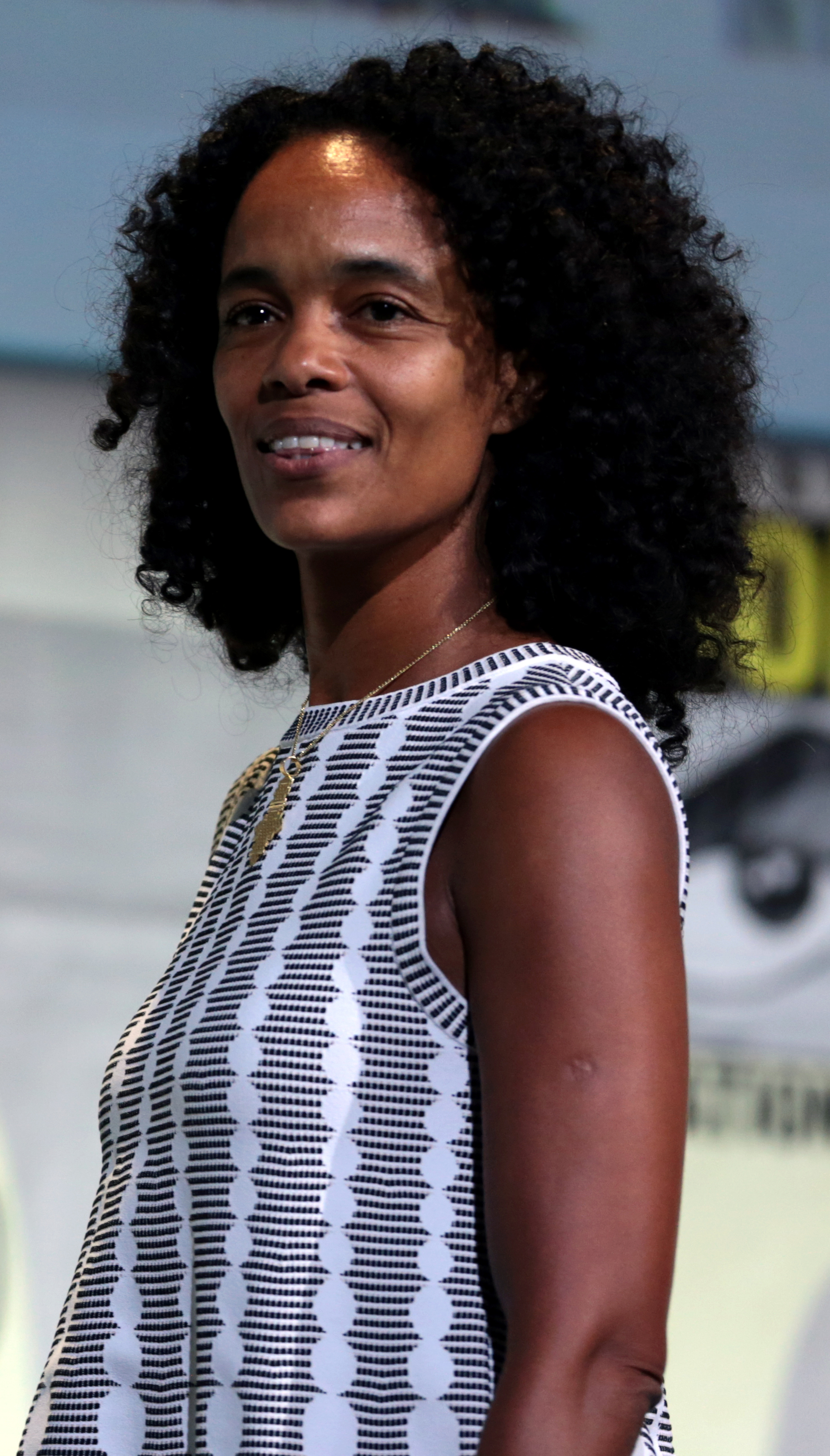 Virginie Besson-Silla speaking at the 2016 San Diego Comic-Con International in San Diego, California.